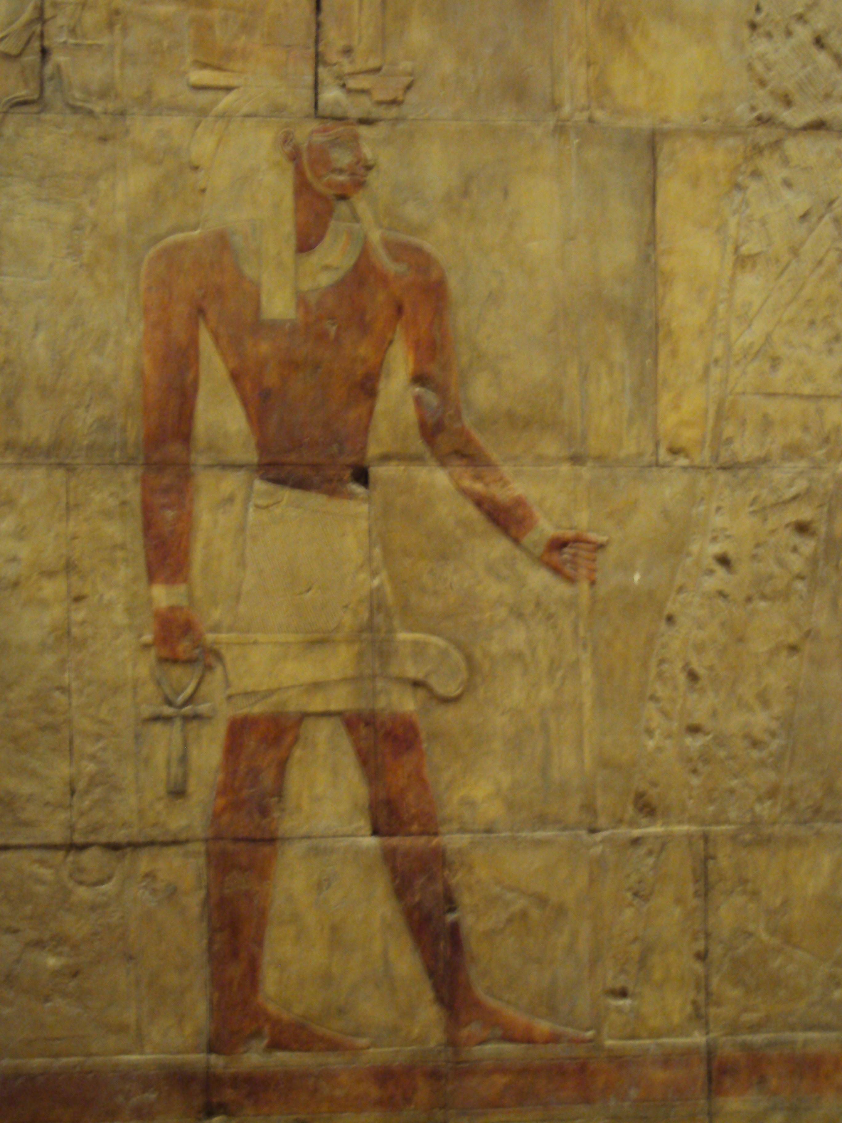 The Ankh, During the reign of Hatshepsut (1508–1458 BC), from Royal Ontario Museum